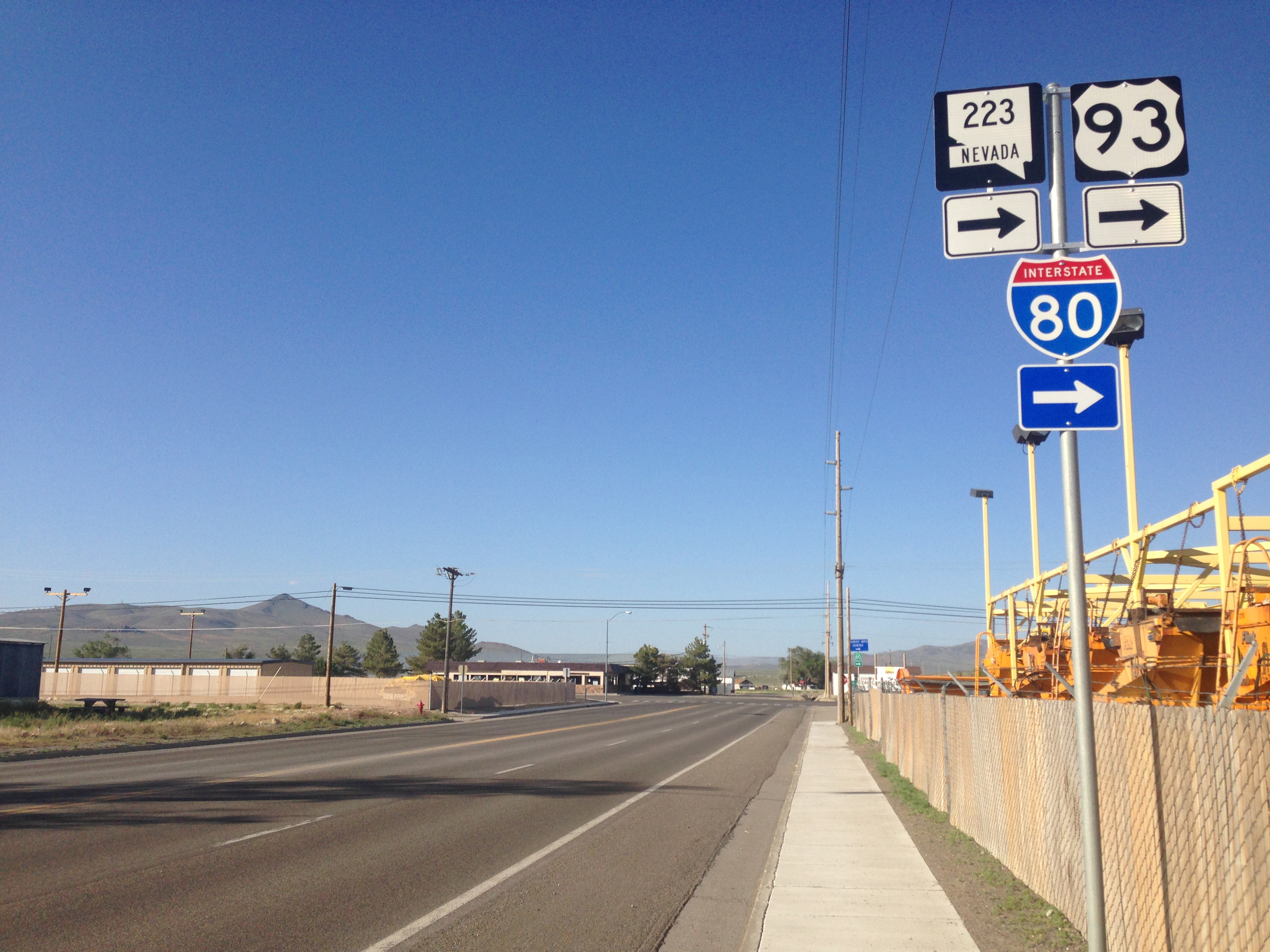 View east along Humboldt Avenue (Nevada State Route 223) near 6th Street in Wells, Nevada